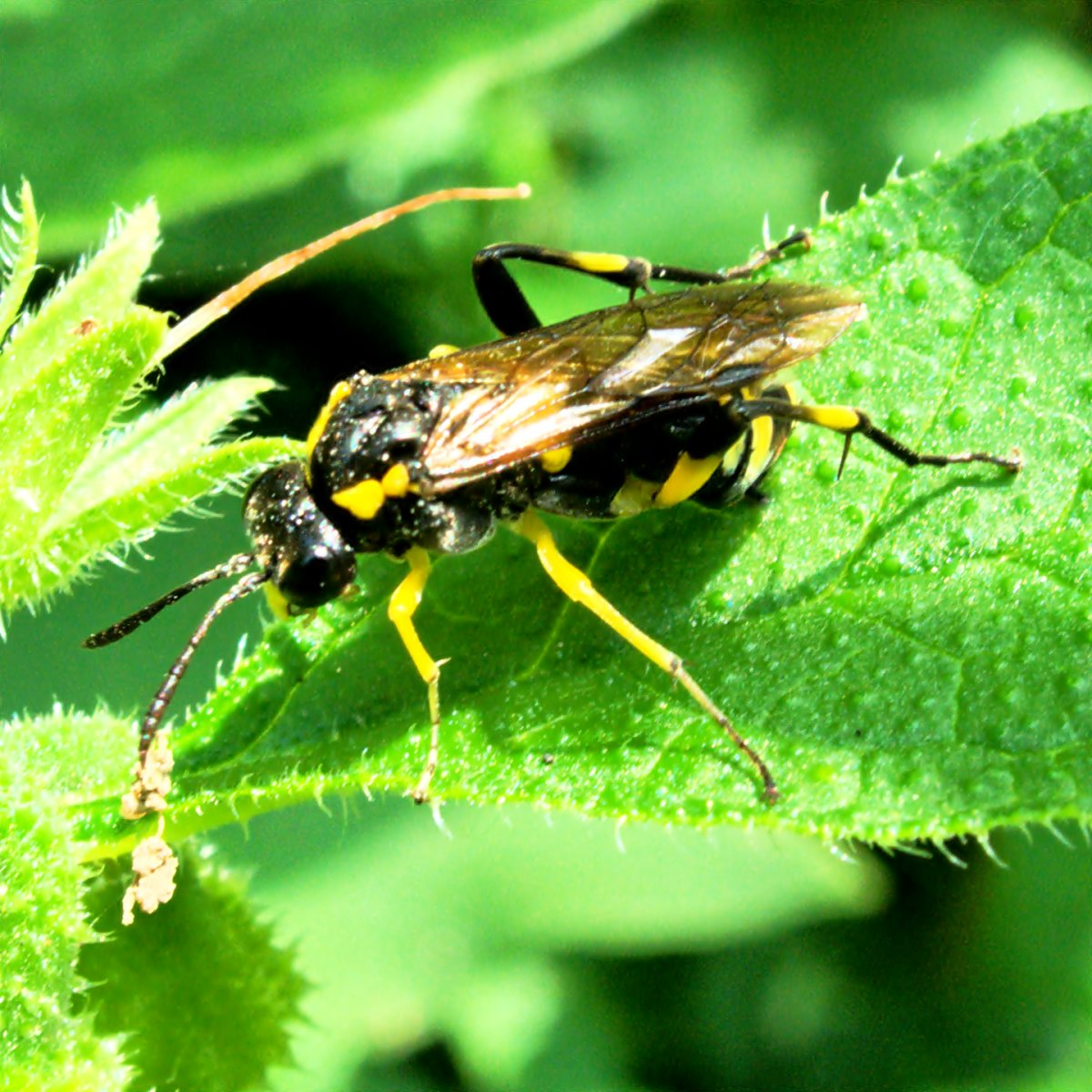 Name: Macrophya montana, female. Family: Tenthredinidae. Location: Münster, NRW, Germany